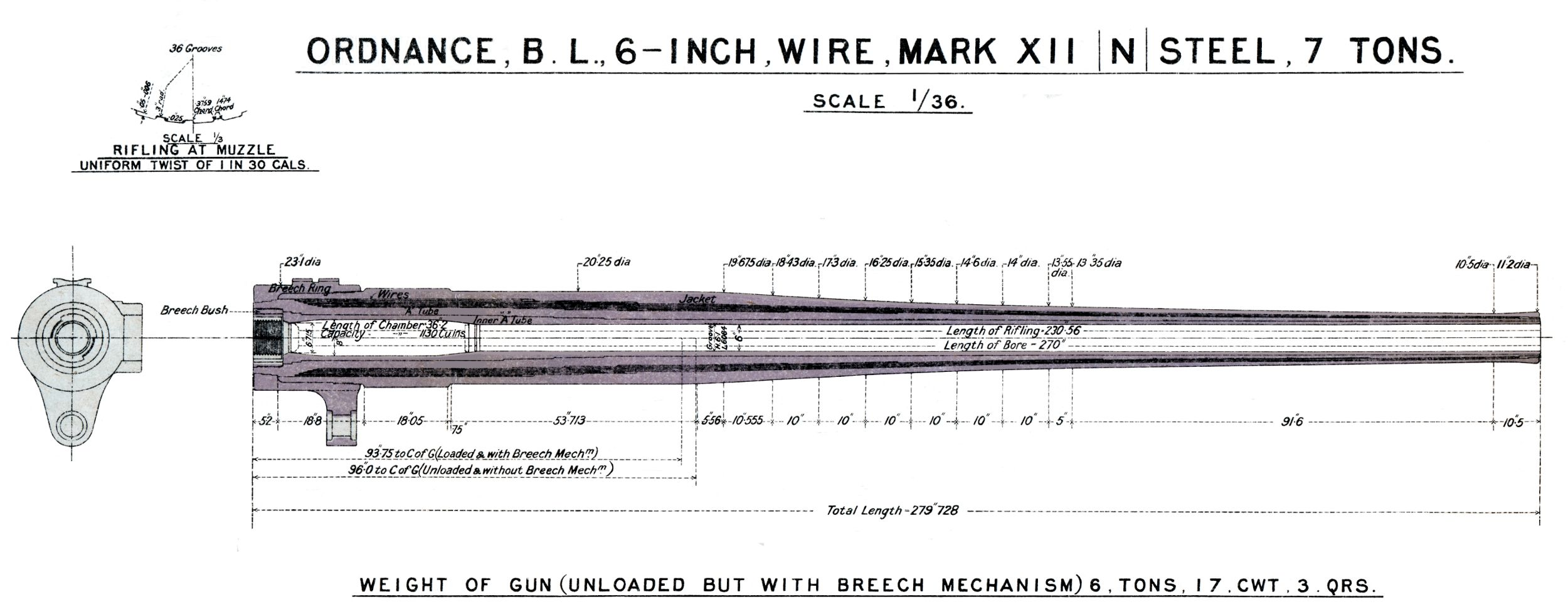 Diagrams depicting barrel construction and dimensions of British BL 6 inch Mk XII naval gun. NOTE 1 : Diagram appears to give chamber volume incorrectly as 1,130 cubic inches. Chamber volume was in fact 1,770 cubic inches. NOTE 2 : layout is slightly rearranged to suit display on computer screen but otherwise unaltered.